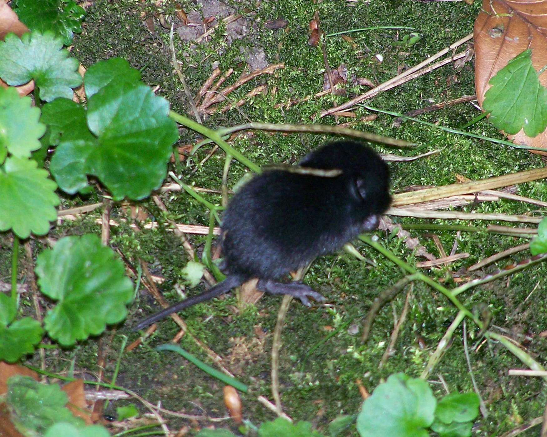 Juvenile bank vole, Myodes glareolus; Germany, Cologne